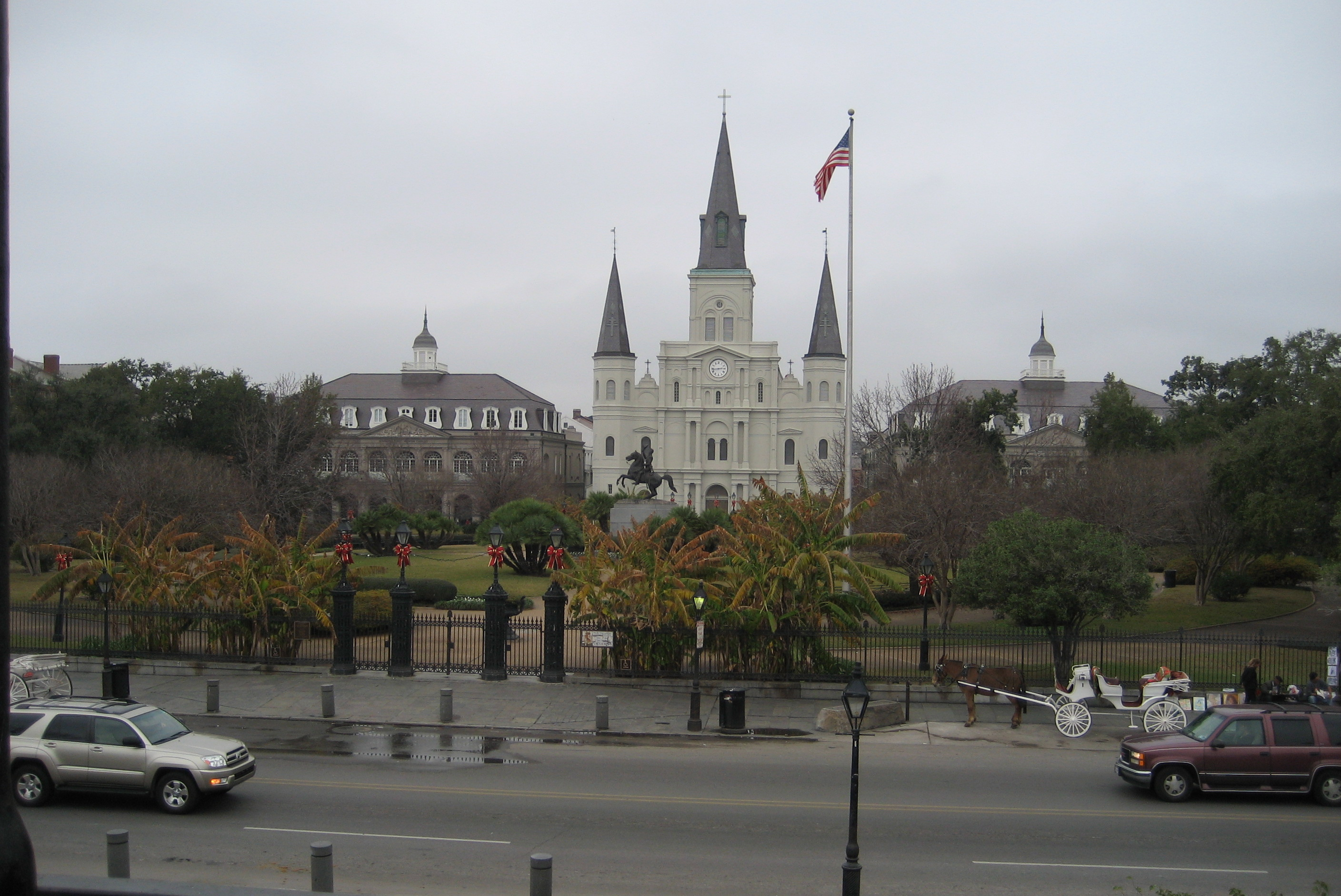 French Quarter, New Orleans, Louisiana. View of Cathedral and Jackson Square from across Decatur Street. The Cabildo is seen to the left of the Cathedral; the Presbytere to the right. Photo by Infrogmation, 2006-12-18